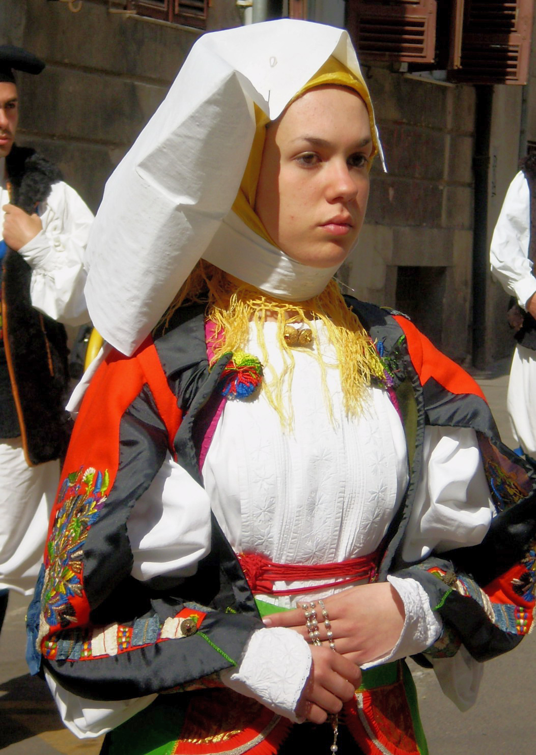 Processione di Sant'Efisio - 1° Maggio, Cagliari Costume di Atzara.